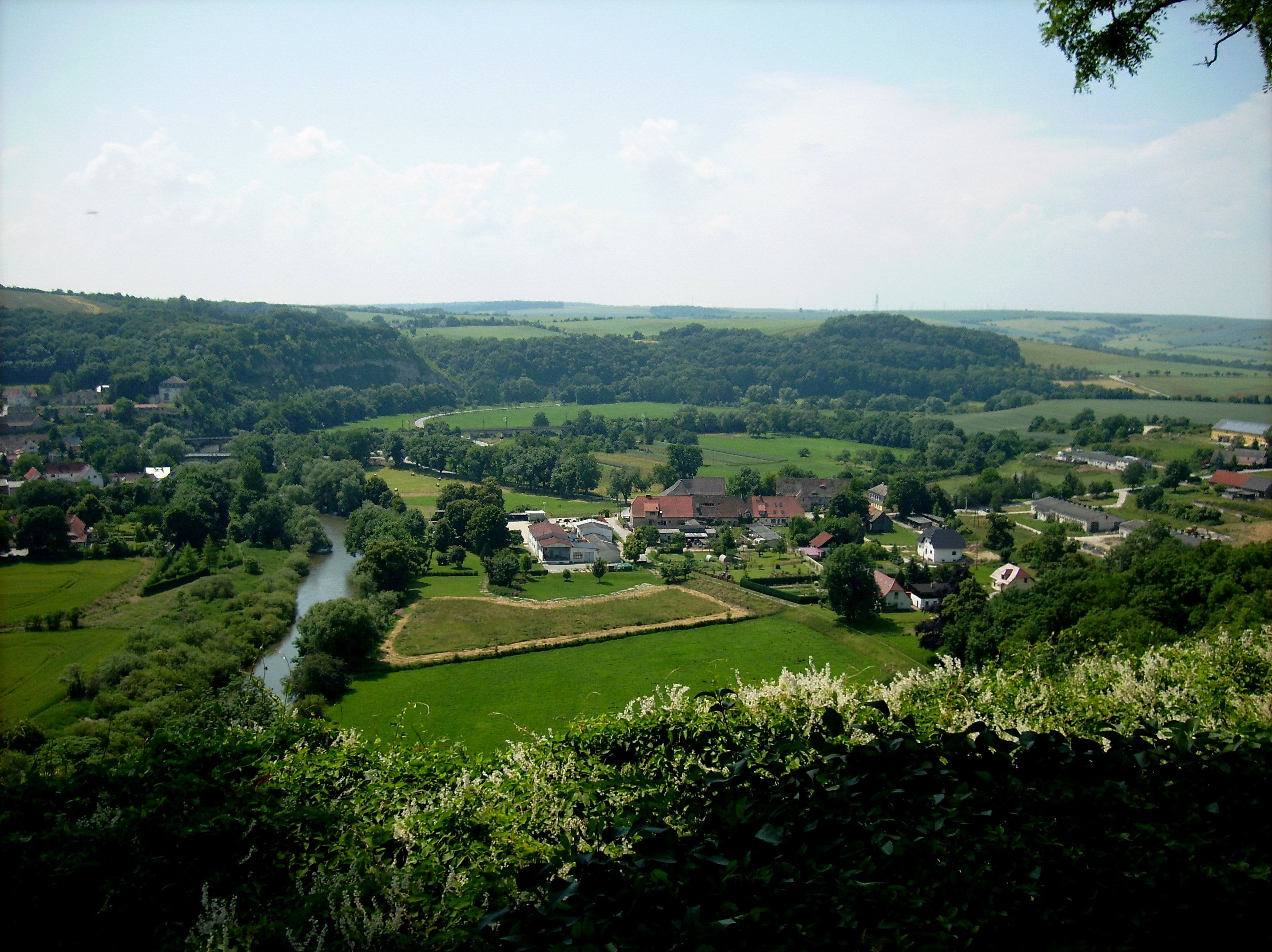 Saale valley with the village of Stendorf (Naumburg/Saale, district of Burgenlandkreis, Saxony-Anhalt), view from the restaurant "Himmelreich"